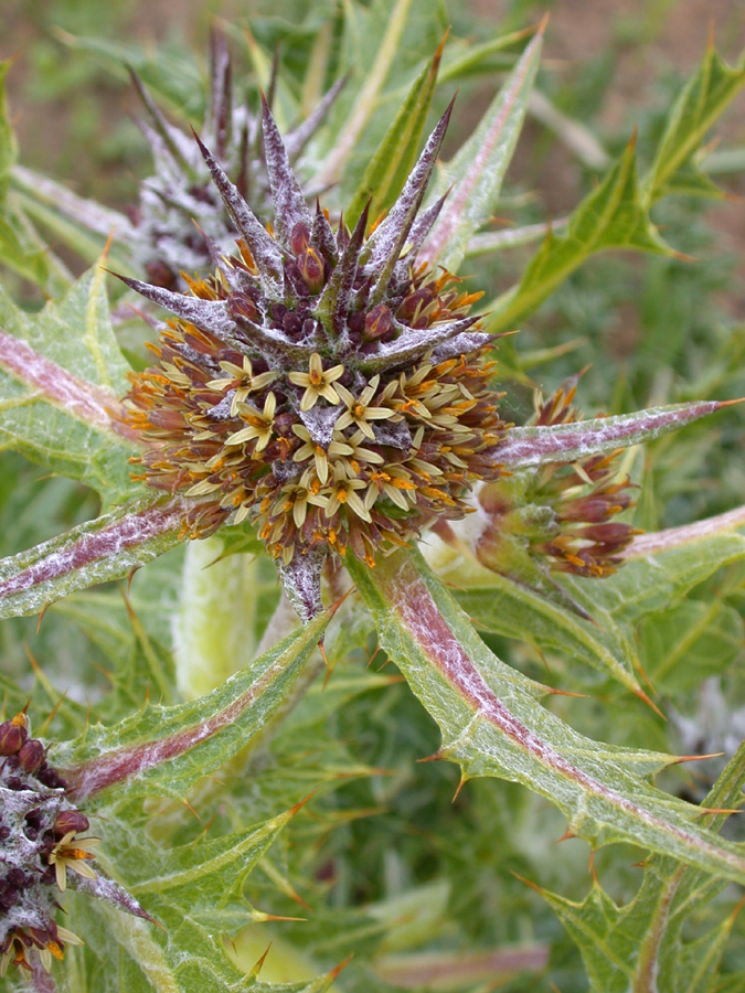 Gundelia tournefortii L. (עכובית הגלגל), Northern Negev, Israel, March 16, 2007.